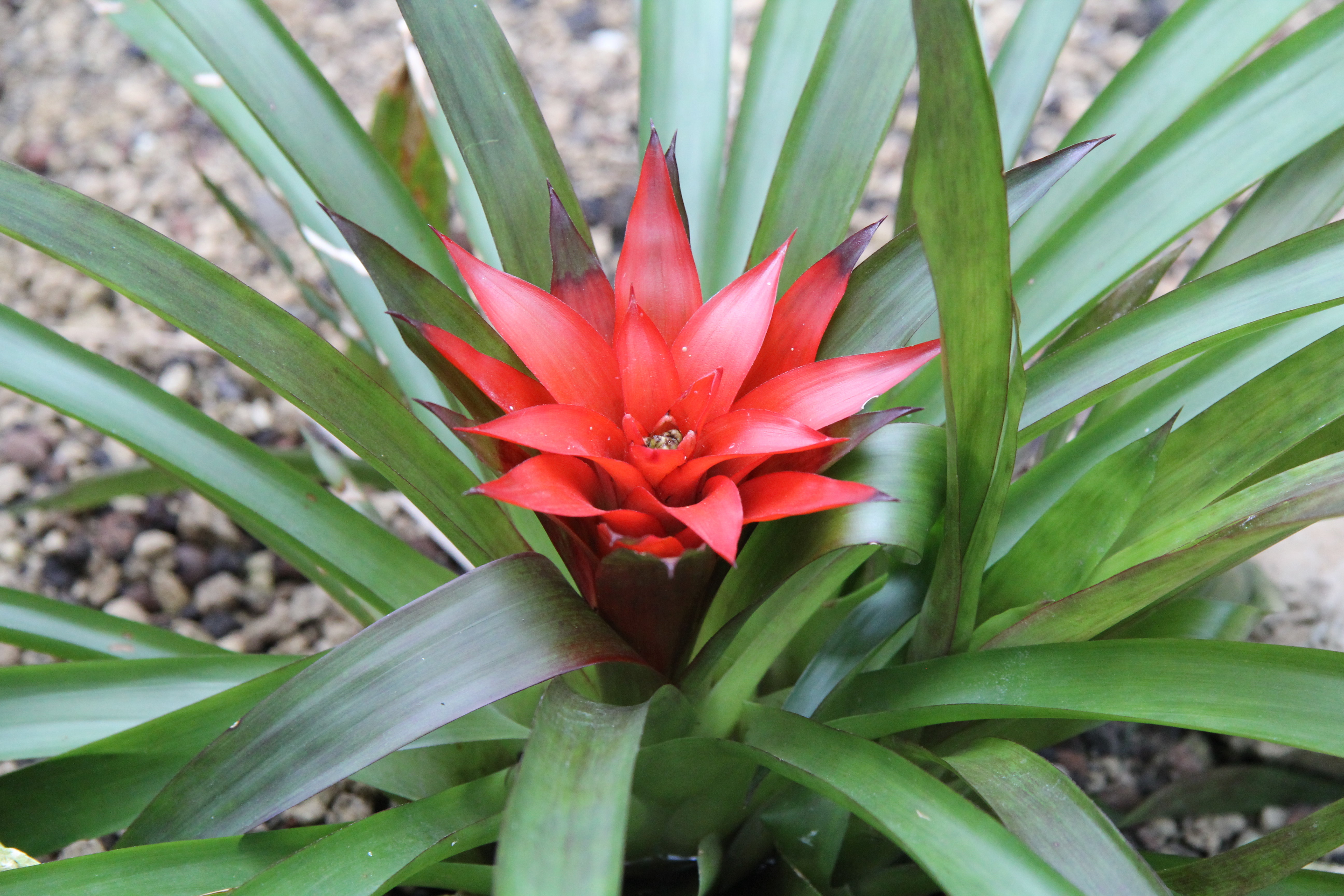 Guzmania lingulata in the Palmengarten in Frankfurt/Main in Germany